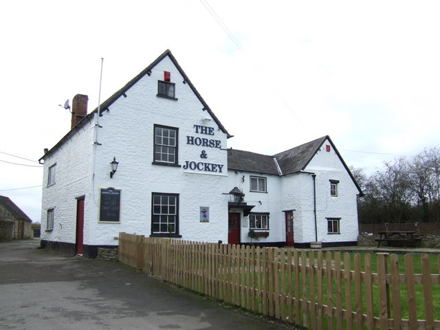 The Horse And Jockey A pub by the A417 passing by Stanford in the Vale.